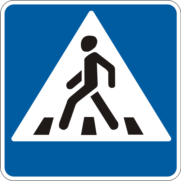 Pedestrian crossing.